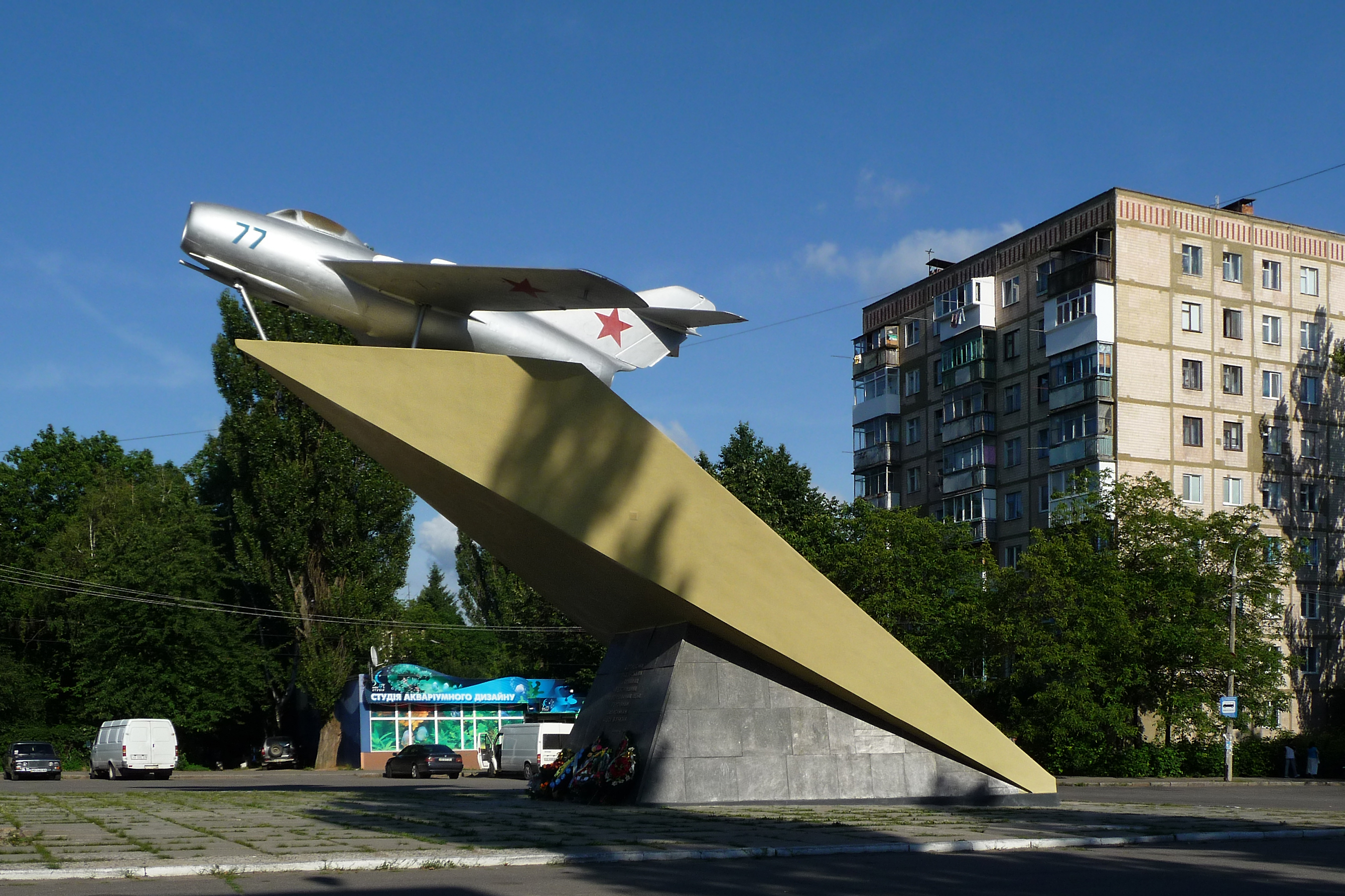 Monument to the Soviet pilots. Old Soviet jet fighter MiG-15. Ukraine, Vinnitsa.